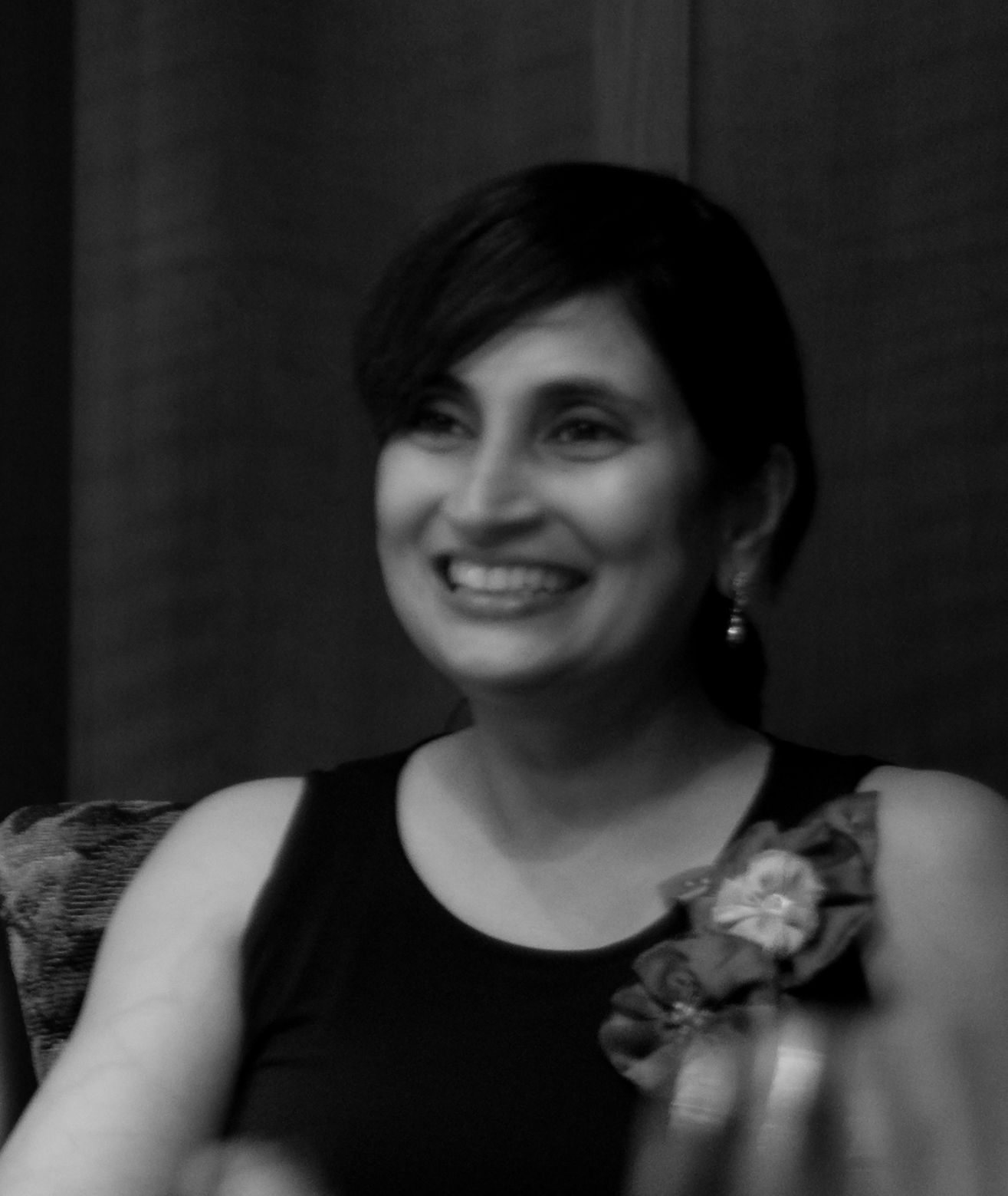 Padmasree Warrior